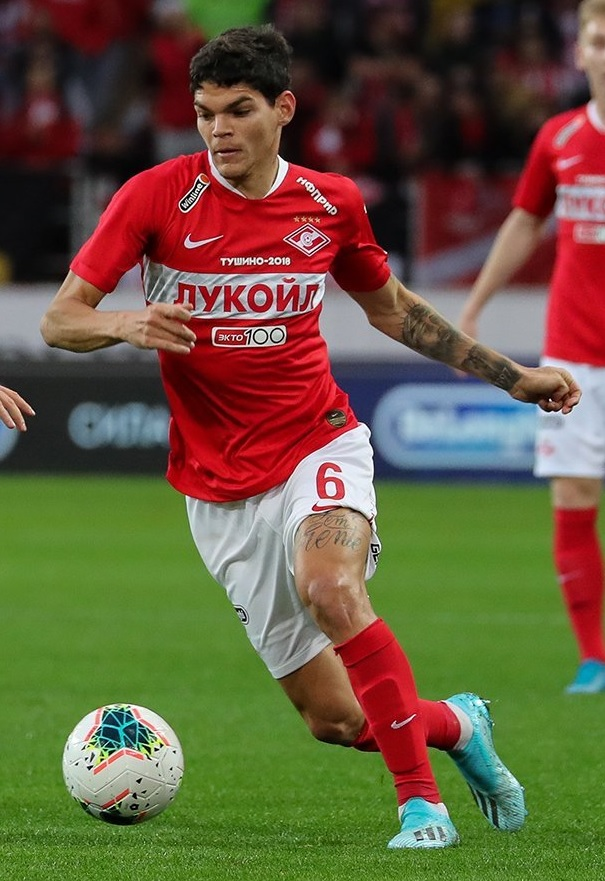 Ayrton Lucas with FC Spartak Moscow in a game against FC Rubin Kazan.